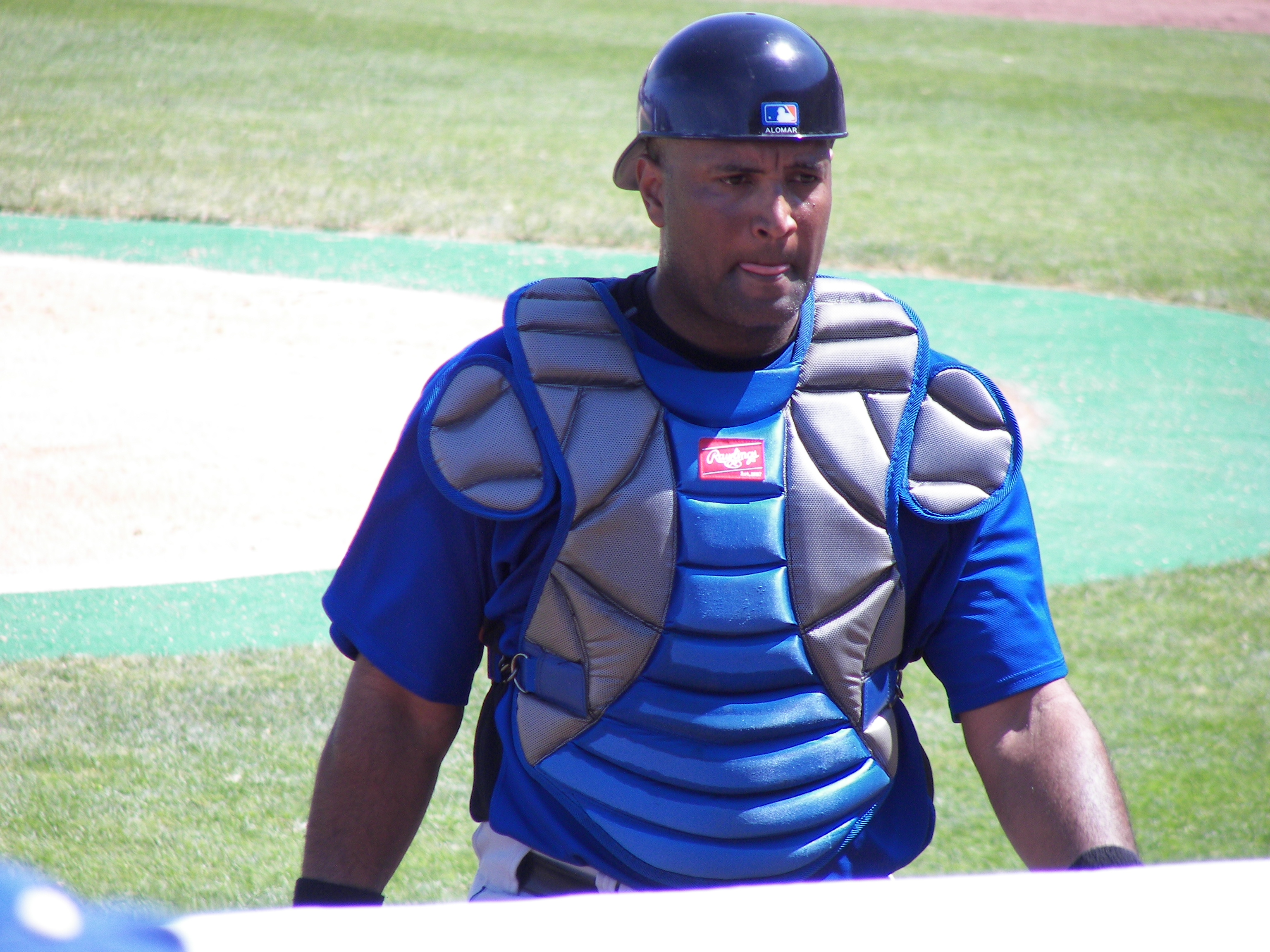 New York Mets catcher Sandy Alomar, Jr. during a Mets/Detroit Tigers spring training game at Joker Marchant Stadium in Lakeland, Florida.